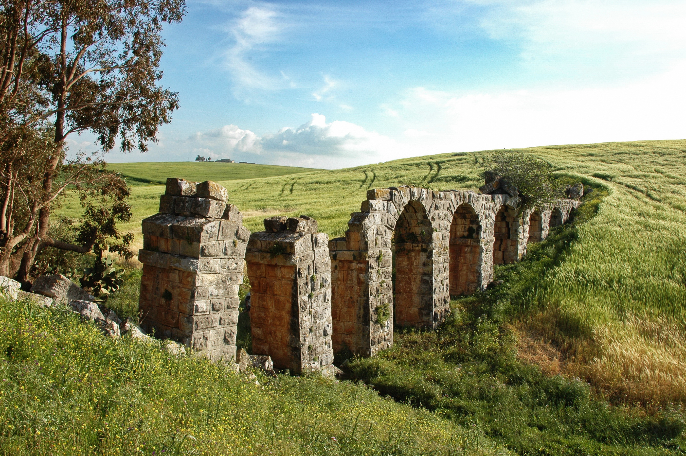 Bridge for the aqueduct on Oued Guetoussia (Dougga, Tunisia)